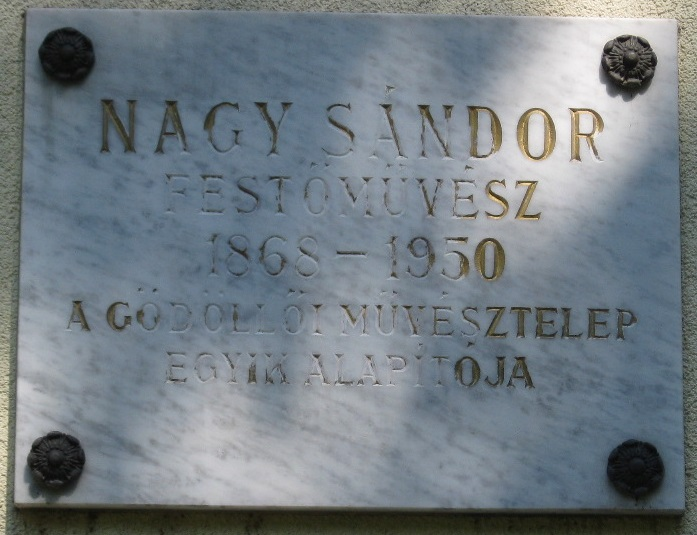 Sándor Nagy (painter) plaque in Gödöllő. Nagy Sándor Alley No 1